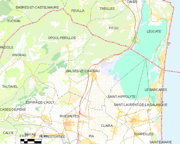 Map of French municipality